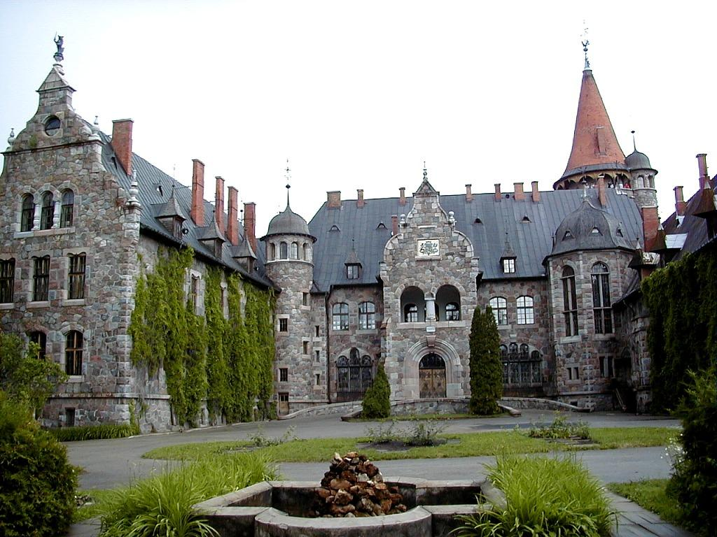 Cesvaine palace in Latvia.